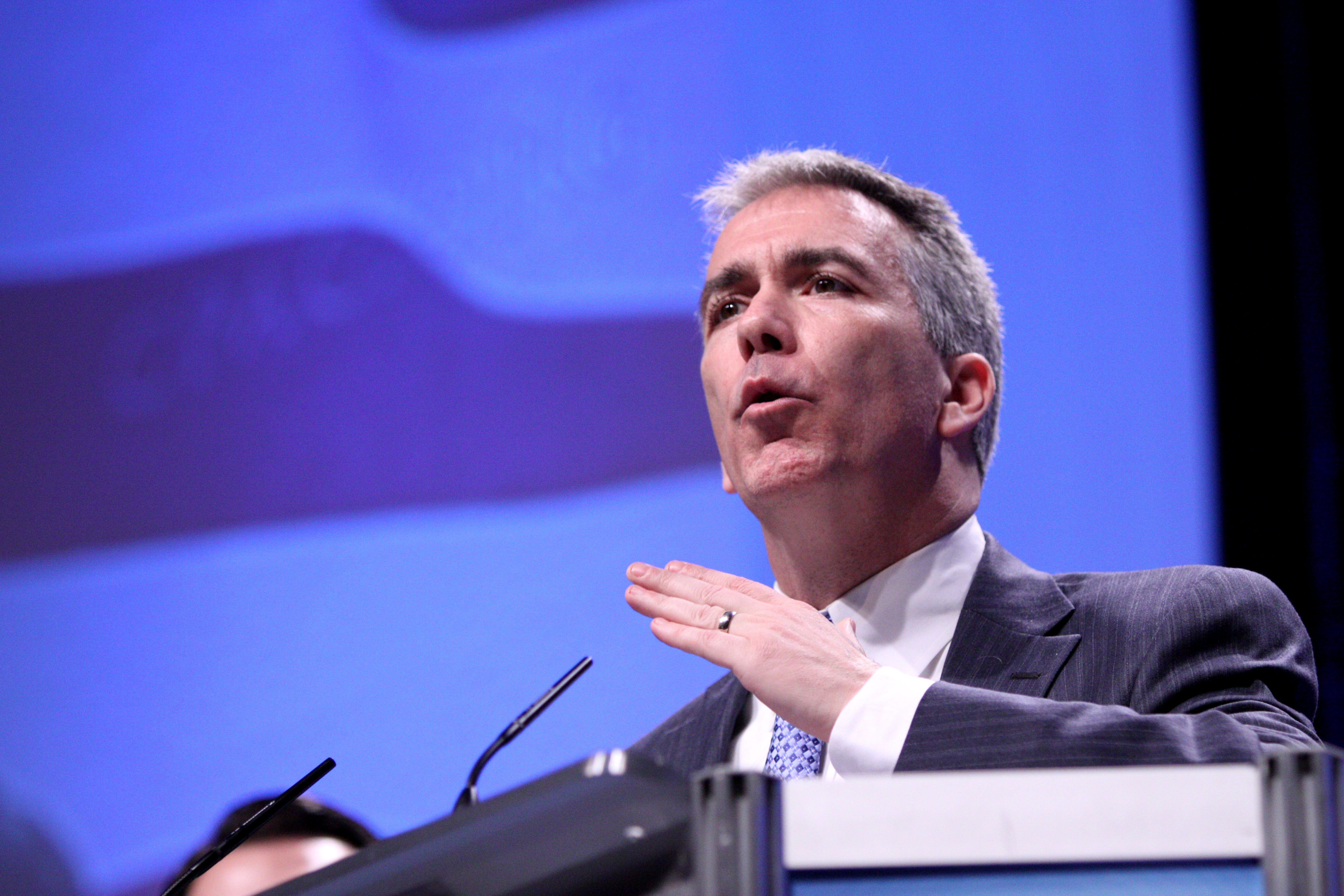 Congressman Joe Walsh of Illinois speaking at CPAC 2011 in Washington, D.C.